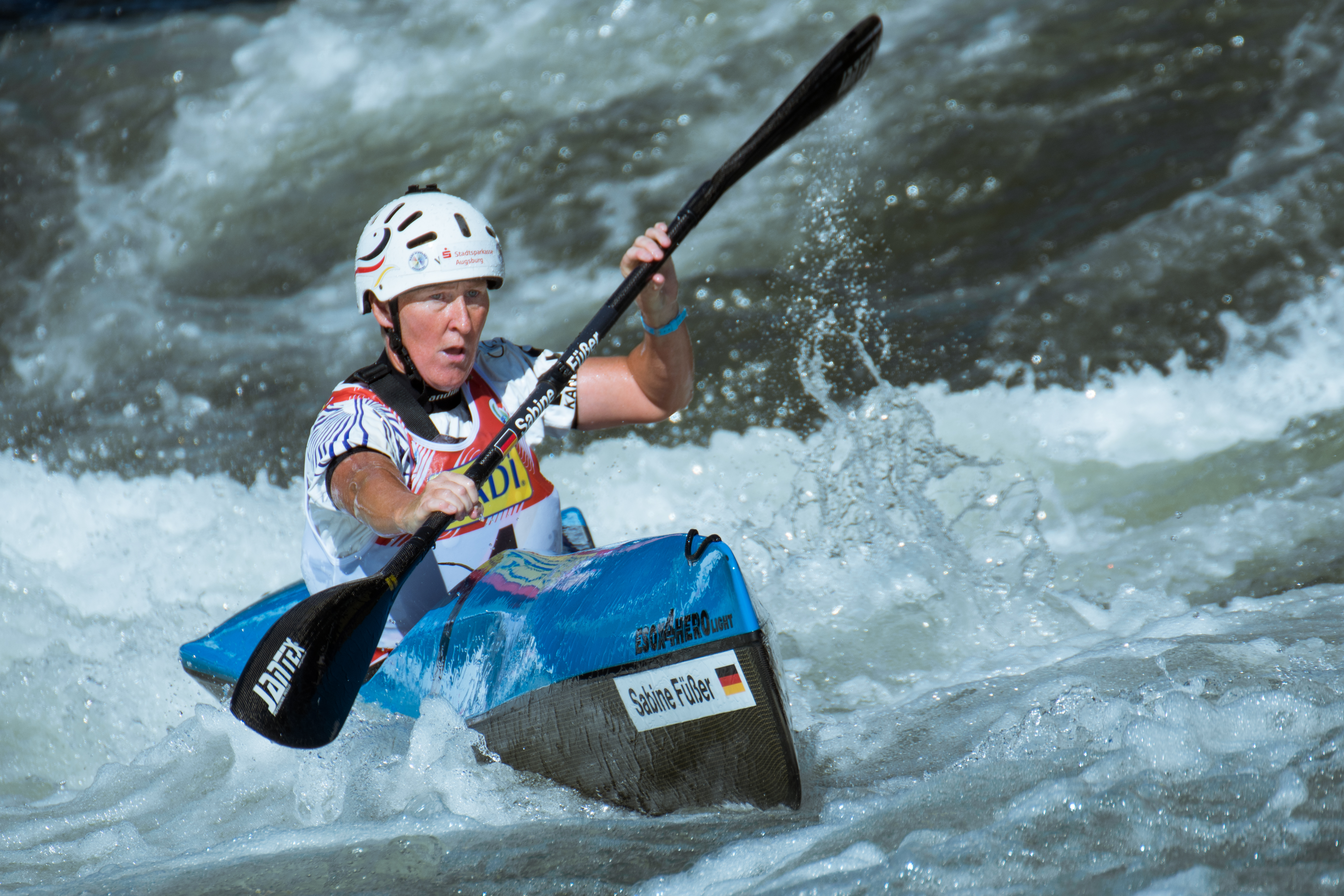 Sabine Fuesser during the 2019 Canoe Wildwater World Championships in La Seu d'Urgell, Spain.